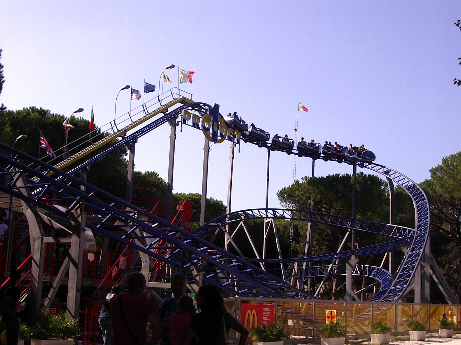 Project 1, the roller coaster realized from the firm L&T Systems